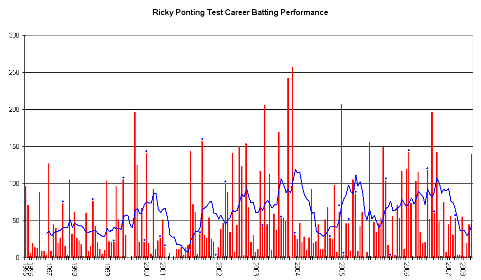 This graph details the Test Match performance of Ricky Ponting. The red bars indicate the player's test match innings, while the blue line shows the average of the ten most recent innings at that point. Note that this average cannot be calculated for the first nine innings. The blue dots indicate innings in which Ponting finished not-out. This graph was generated with Microsoft Excel 2002, using data from Cricinfo [1] and Howstat [2]. The information in this chart is current as of 2 February, 2008.